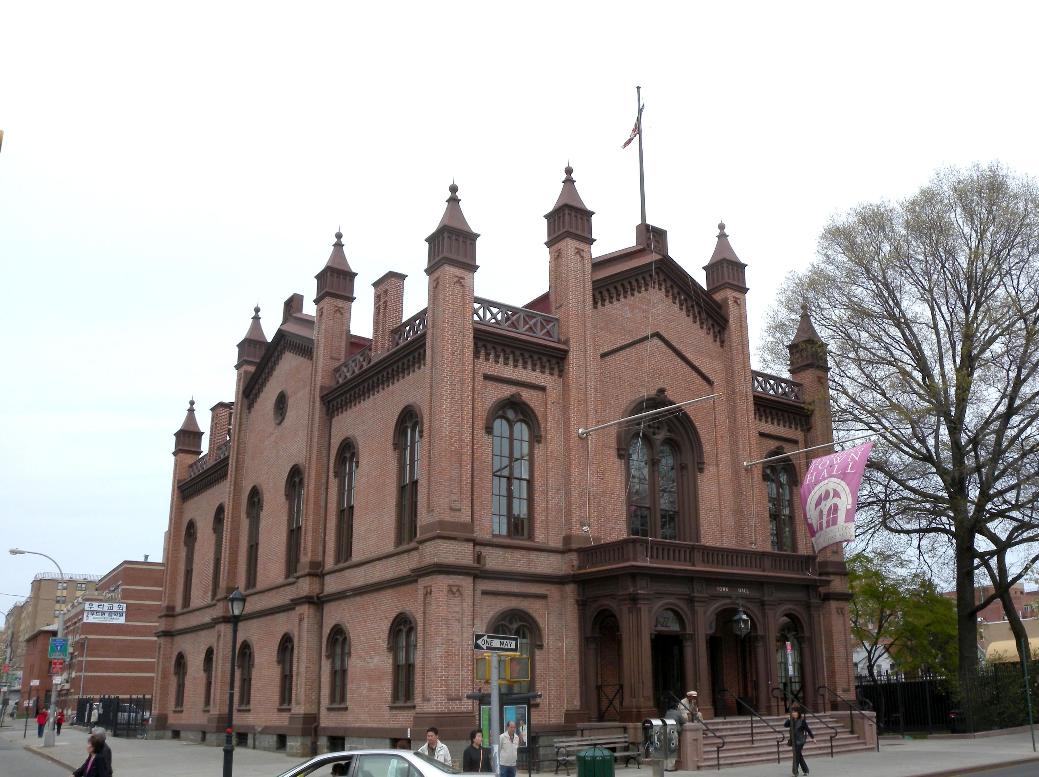 Looking northeast across Northern Boulevard at Flushing Town Hall on a cloudy midday.